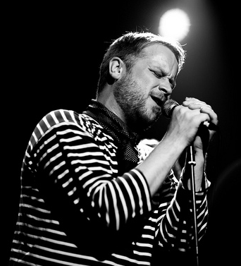 The singer songwriter John Turrell.